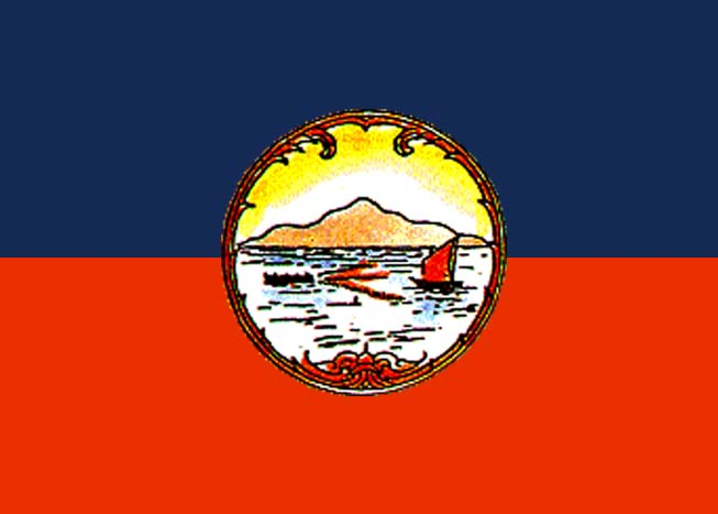 Flag of Trat Province